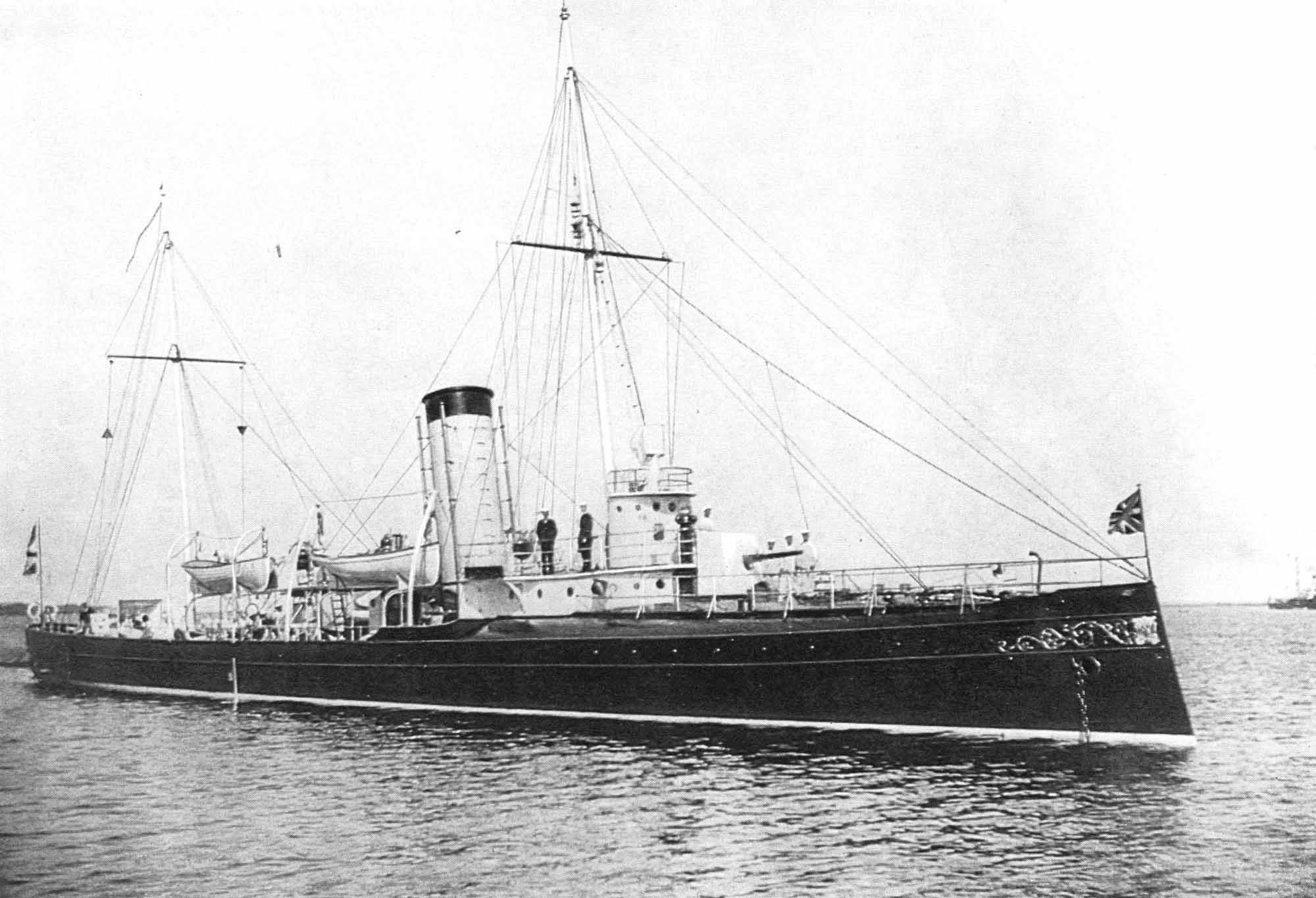 Imperial Russian torpedo cruiser Abrek.